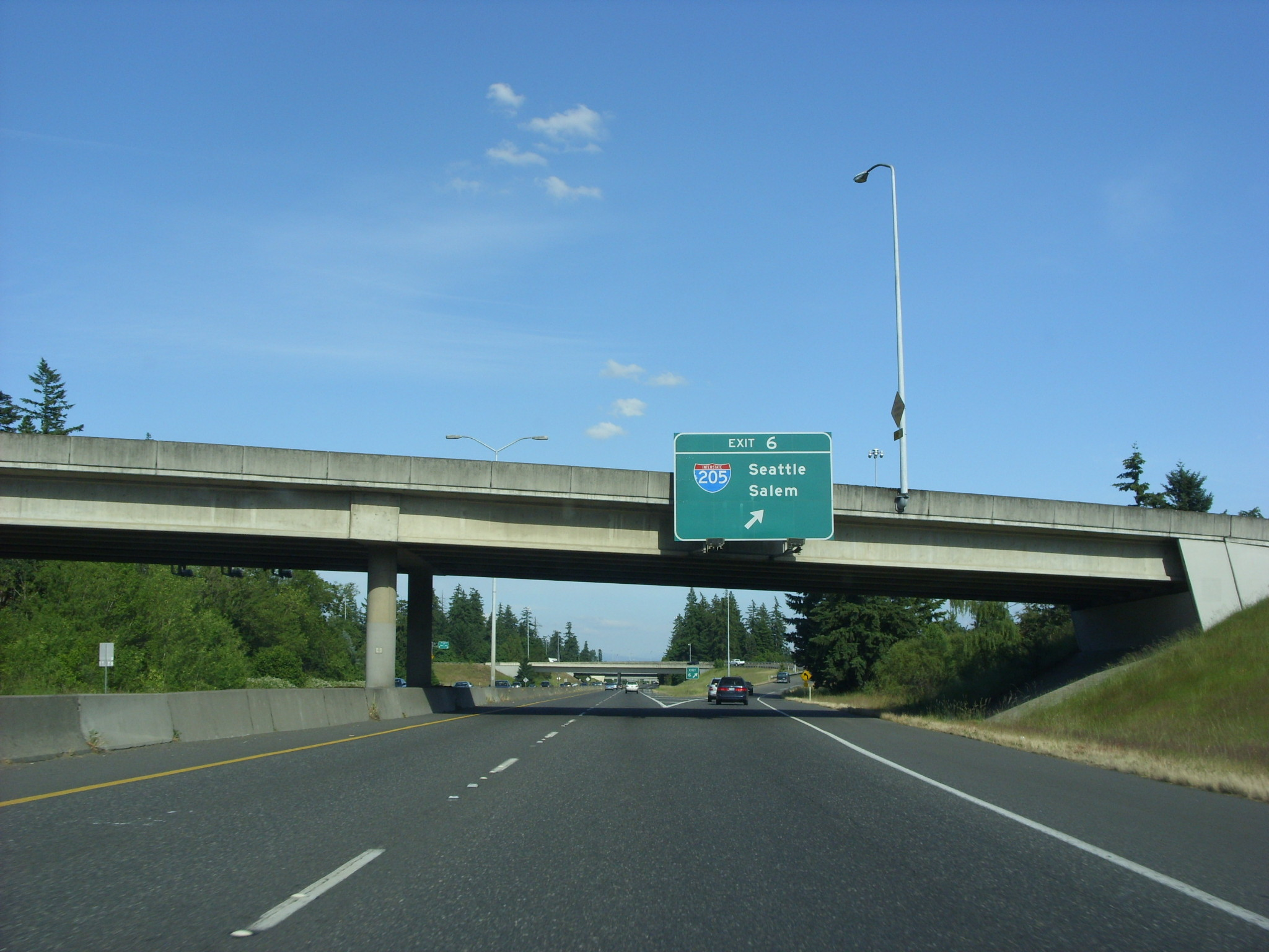 Washington State Route 14 eastbound at its interchange with Interstate 205 in Vancouver, Washington.